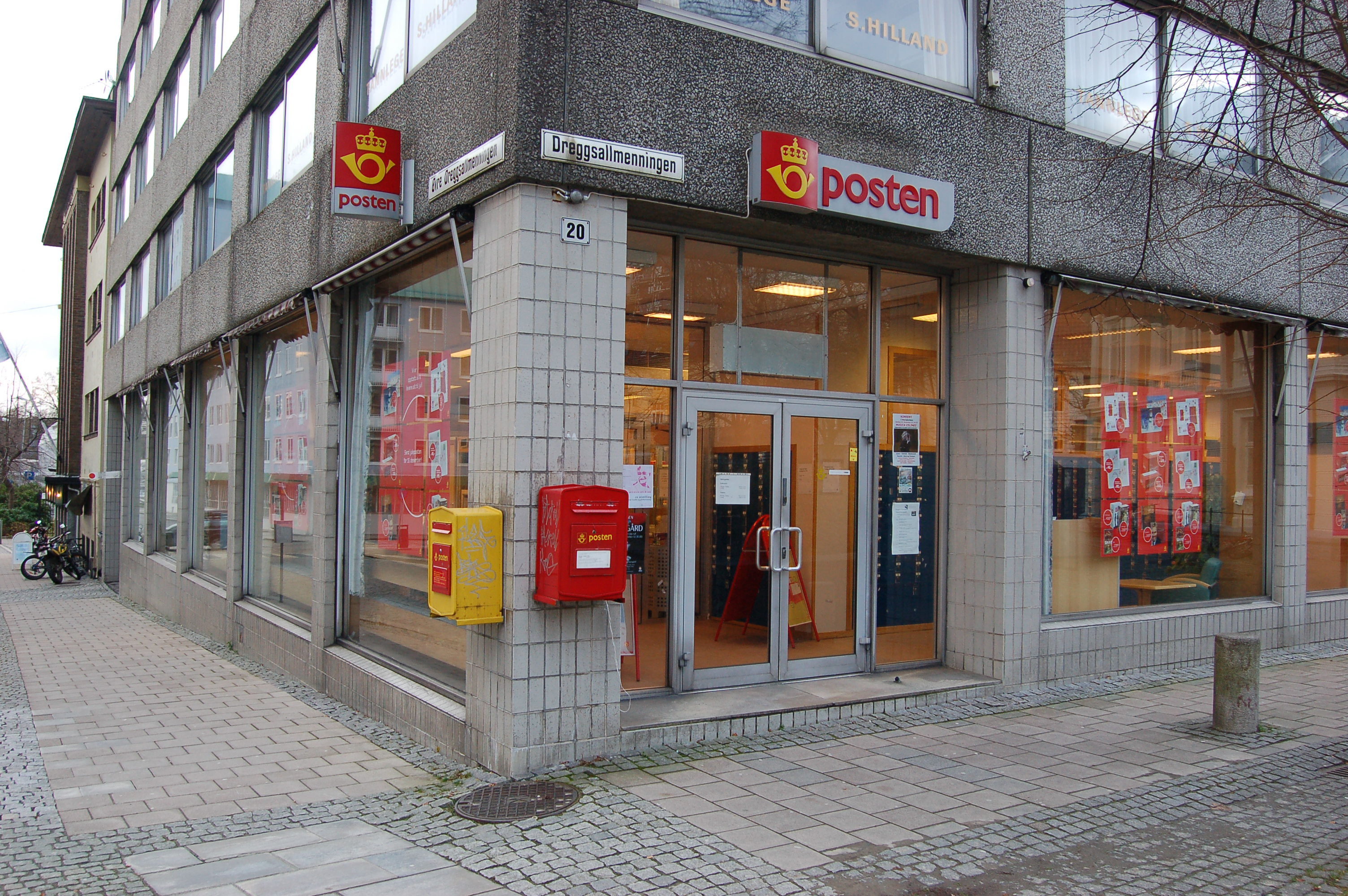 Dreggen Post Office in Bergen, Norway - Old profile